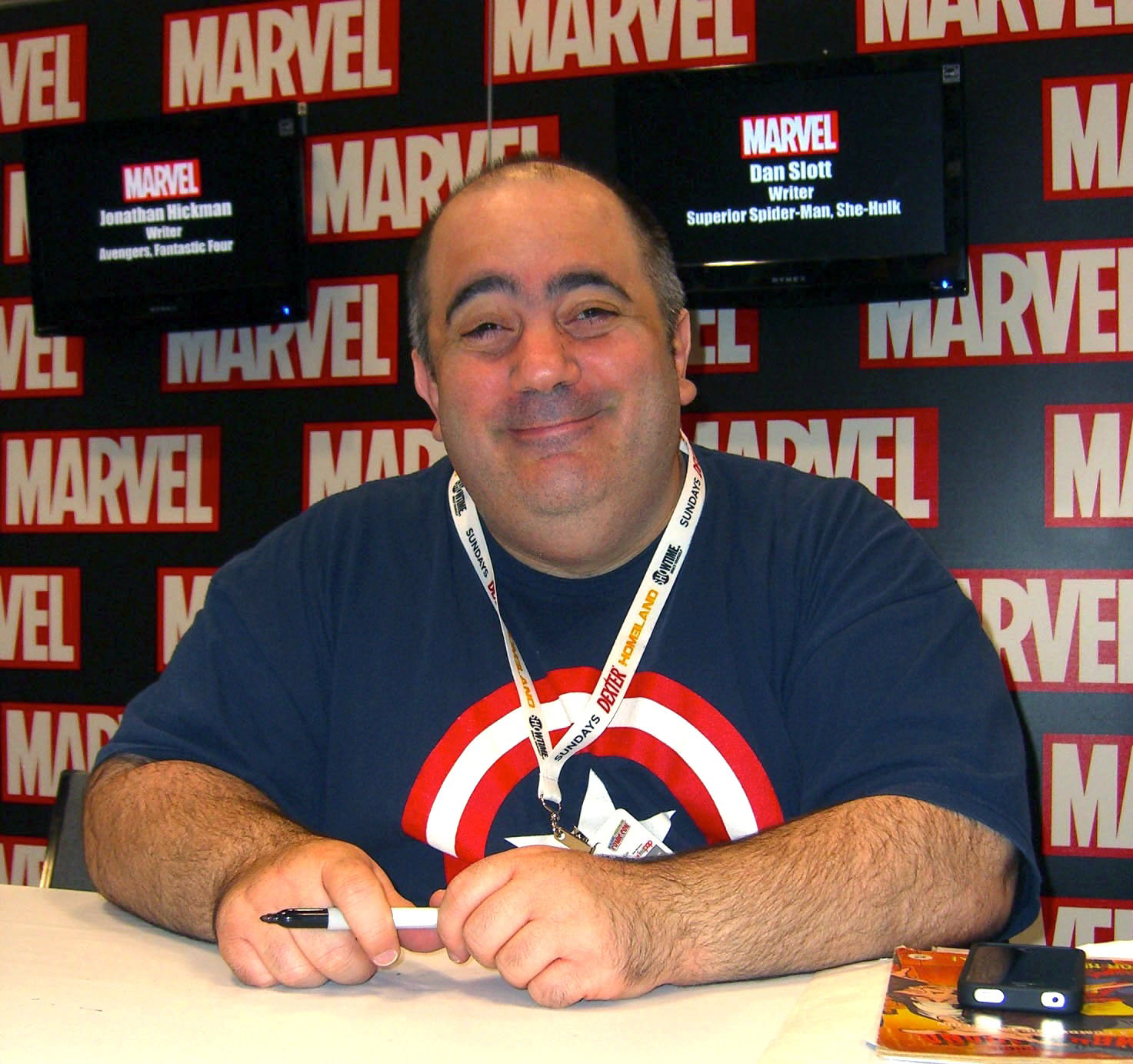 Comics creator Dan Slott on Day 2 of the 2012 New York Comic Con, Friday October 12, 2012 at the Jacob K. Javits Convention Center in Manhattan. This photo was created by Luigi Novi. It is not in the public domain, and use of this file outside of the licensing terms is a copyright violation.